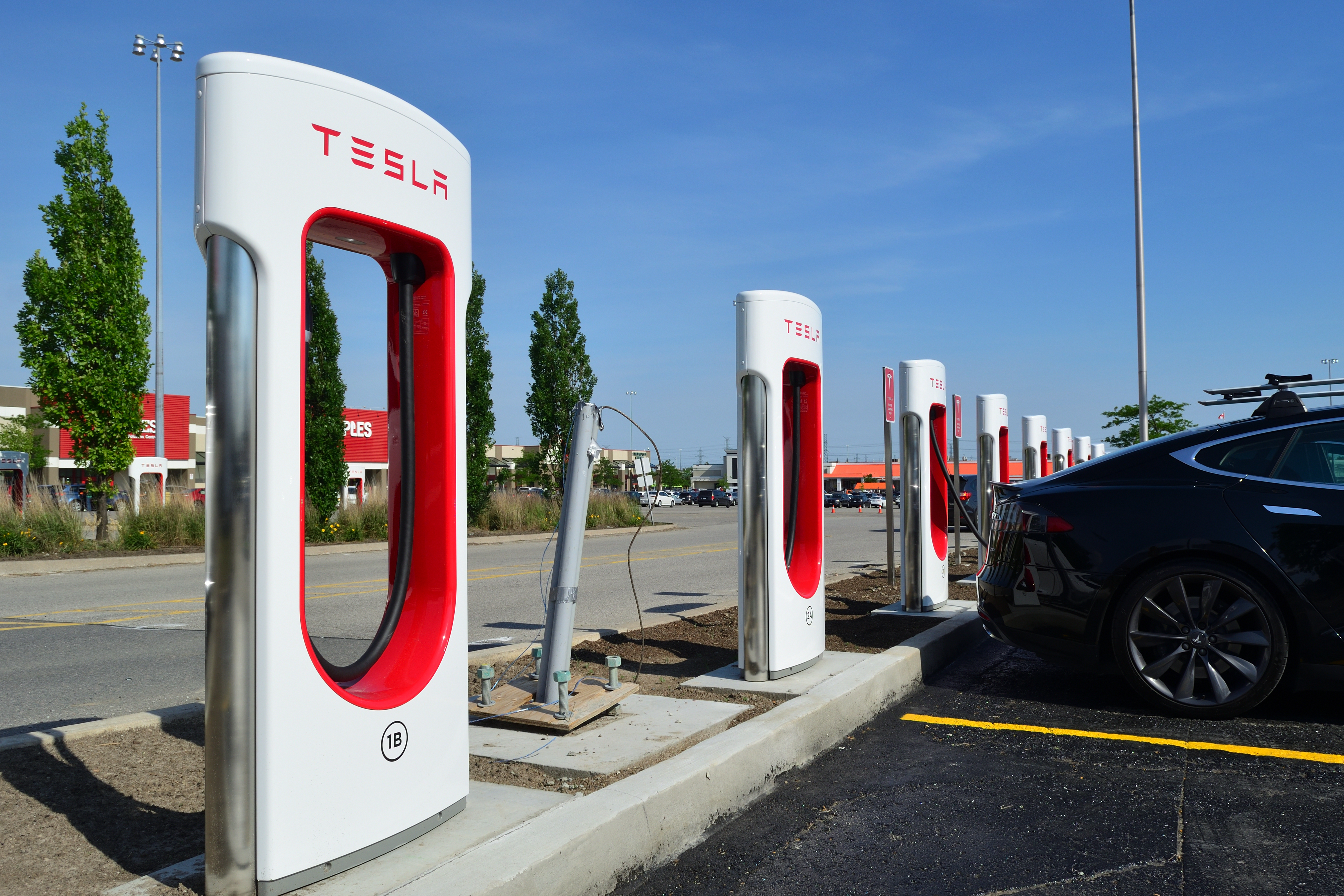 Tesla Super Chargers at SmartCentre Markham Woodside